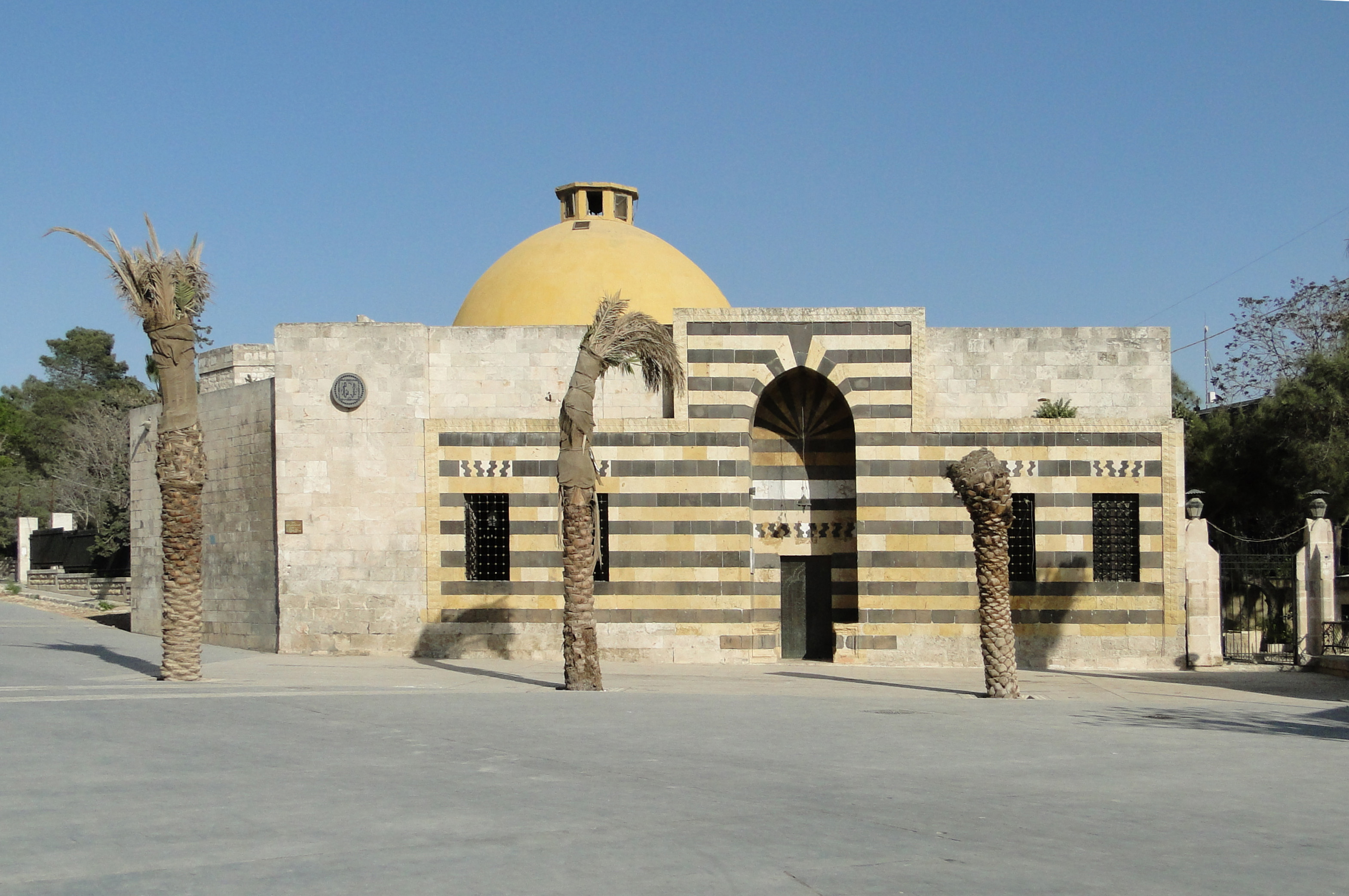 Hammam Yalbougha al-Nasri, Aleppo, Syria